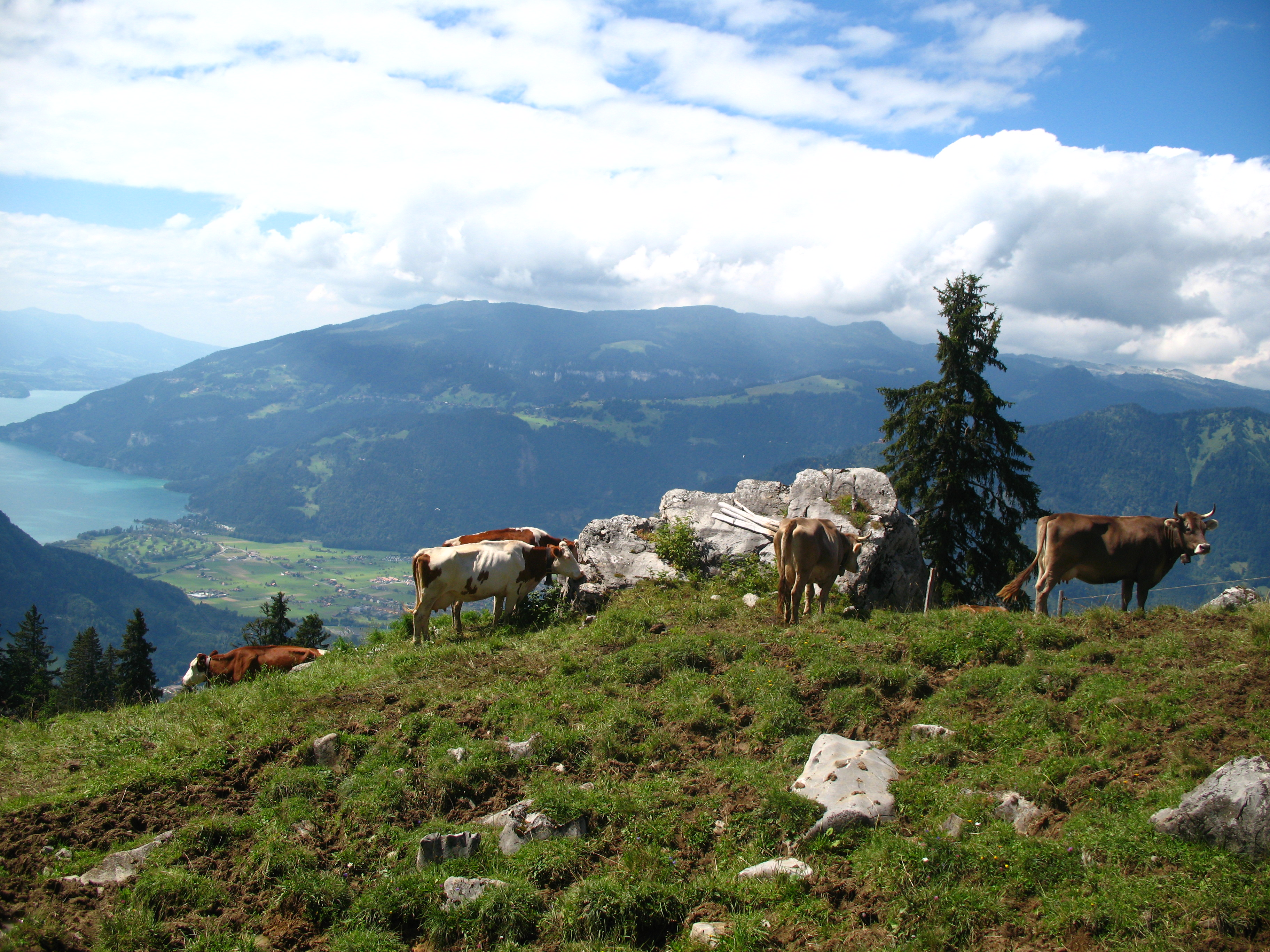 Cattle viewed from the Schynige Platte Railway, Switzerland